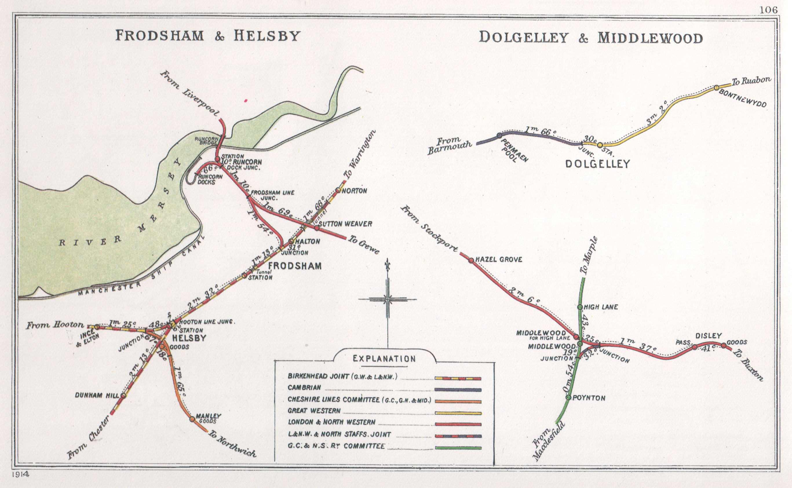 Railway Junctions in Frodsham & Helsby; Dolgelley & Middlewood pre grouping